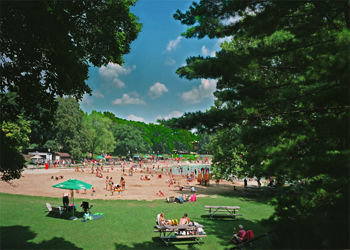 Along Naperville's Riverwalk is an awesome aquatic park named Centennial Beach.